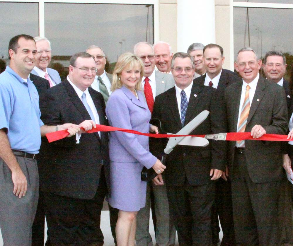 Oklahoma Governor Mary Fallin at the ribbon cutting ceremony for the opening of the University Center in Ponca City, Oklahoma on July 12, 2011. Photo Credit: Hugh Pickens Note: This photo is licensed under a Creative Commons Attribution Share Alike 3.0 license which means that attribution must be provided with any use of this photo in the manner specified by the author. Any use of this photo or any derivative work using this photo in print or on the web must include as an attribution, a photo credit to Hugh Pickens as indicated above and, if used on the web, must include a link to the web site of Hugh Pickens at